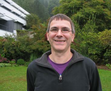 Photo of Stefan Muller